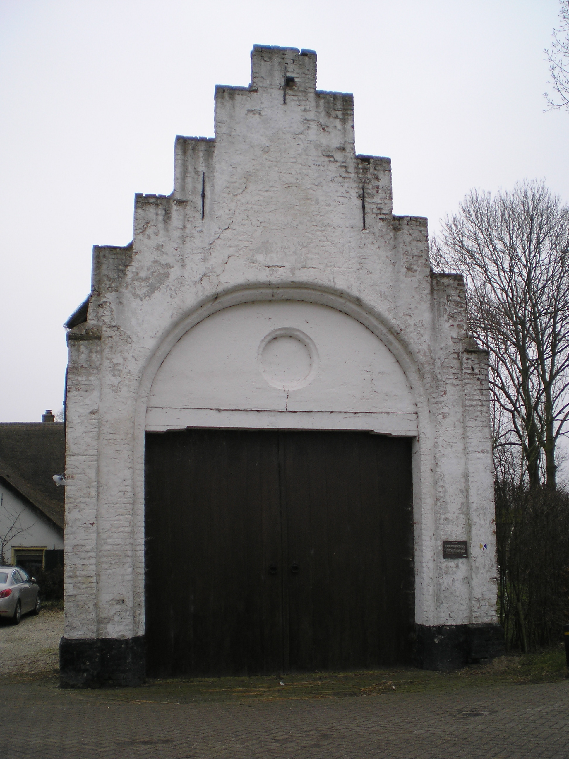 The Steenen Poort in Houten in the Netherlands